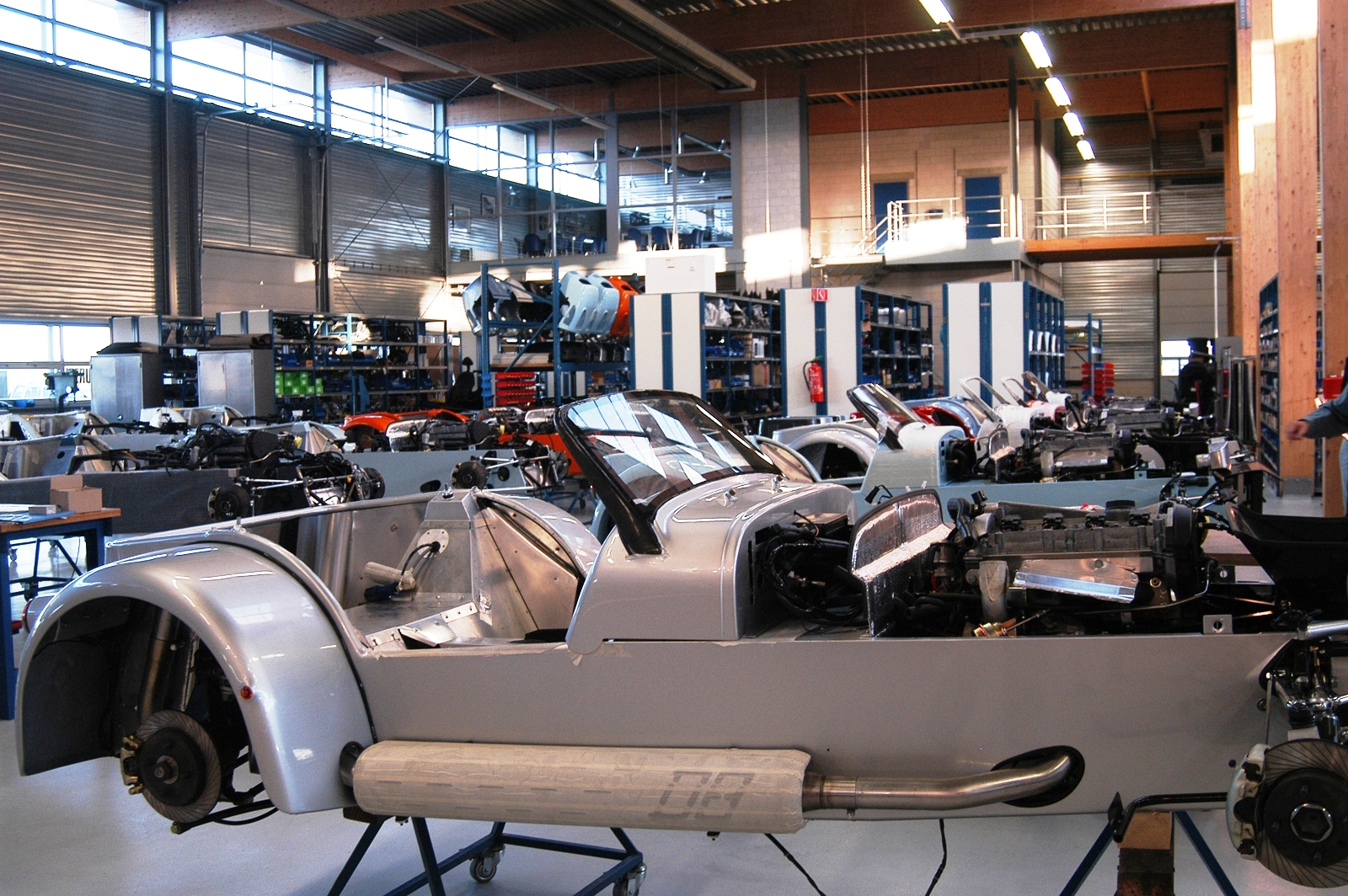 Donkervoort Factory